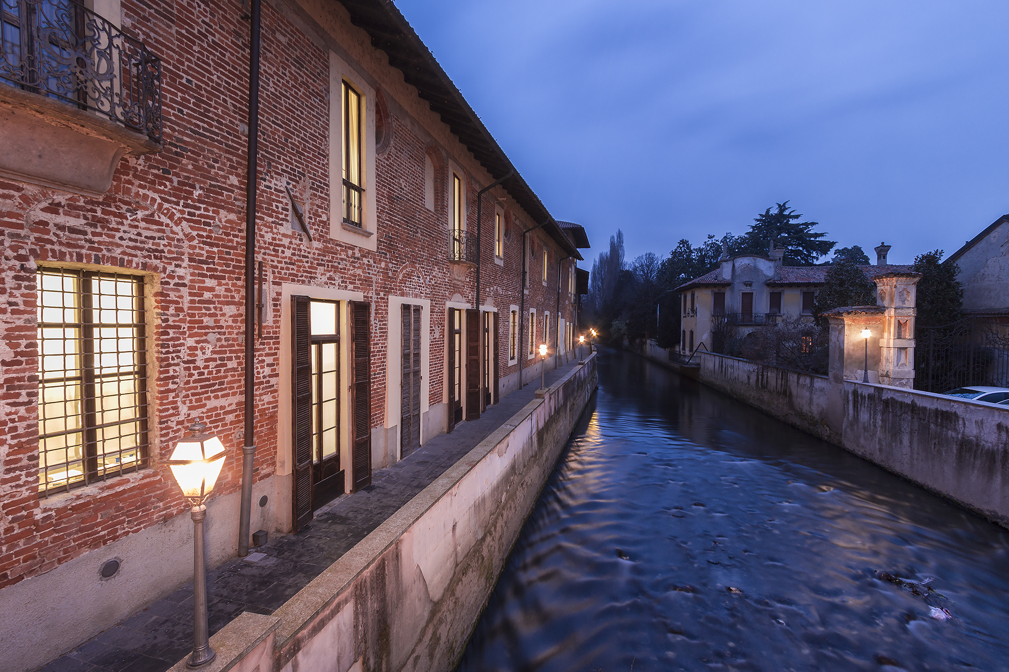 L'Olona a Nerviano This is a photo of a monument which is part of cultural heritage of Italy.